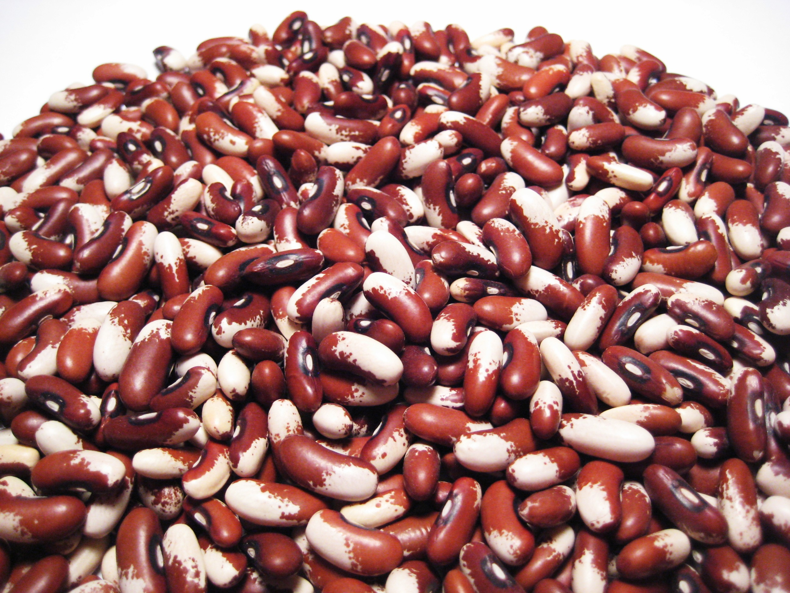 "Painted Pony" dry bean (Phaseolus vulgaris)